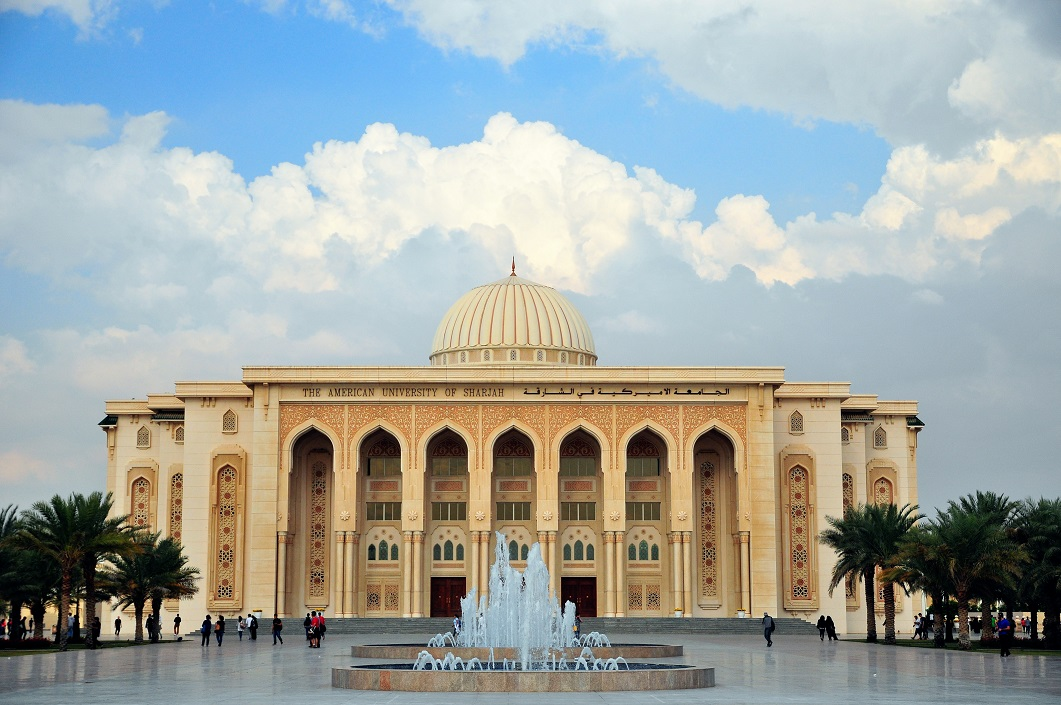 AUS Main Building